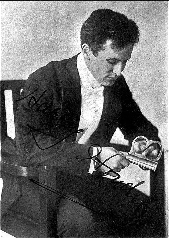 Publicity photo of Harry Houdini, with signature